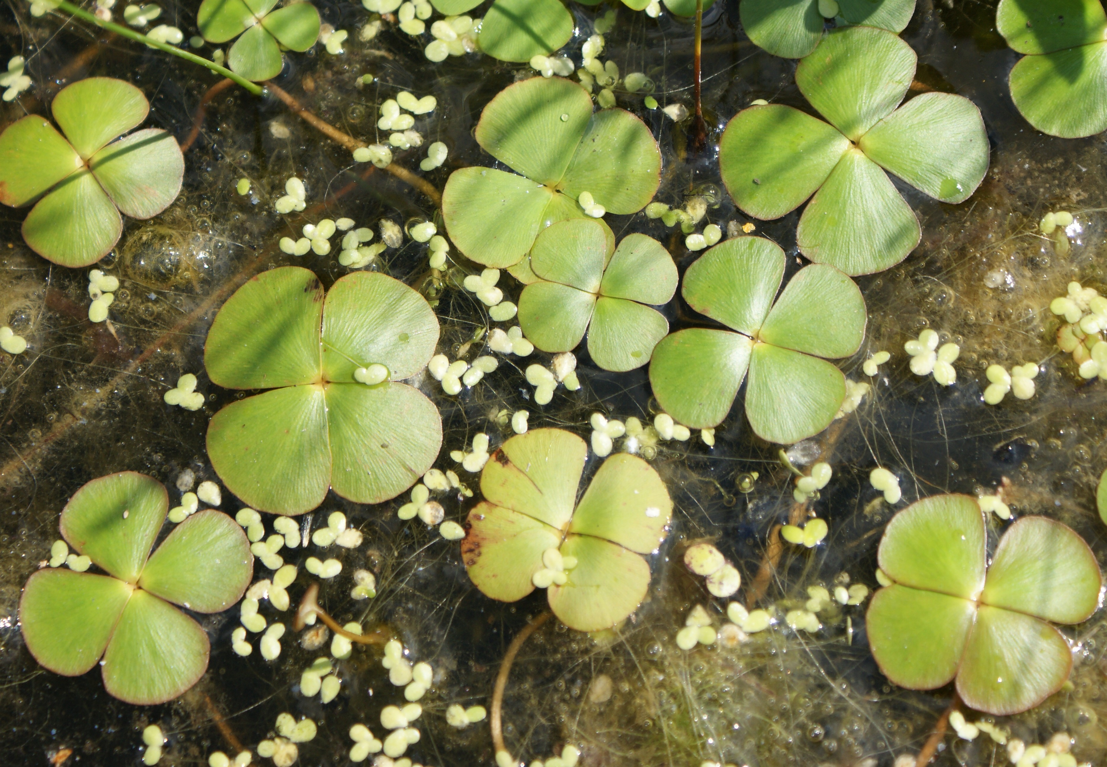 Marsilea quadrifolia, Botanic Garden in Wroclaw (Poland)